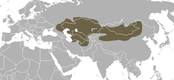 Corsac range